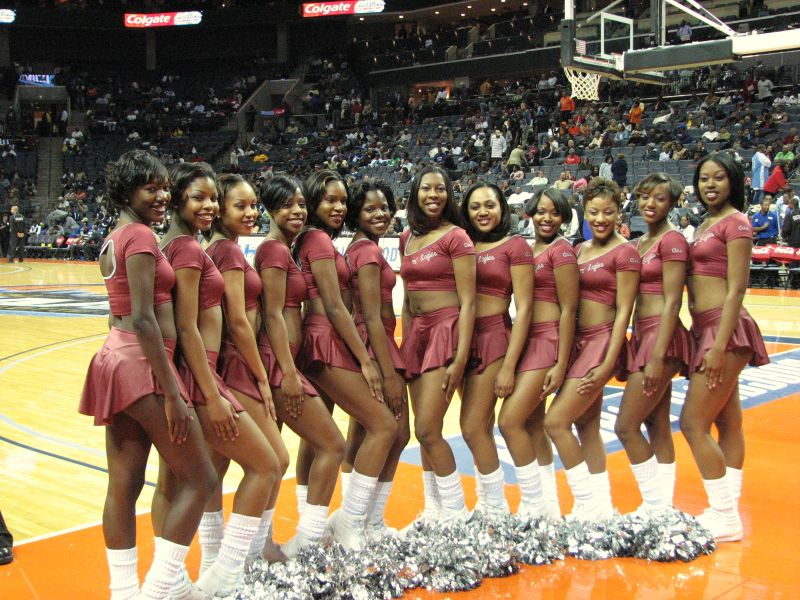 North Carolina Central University cheerleaders